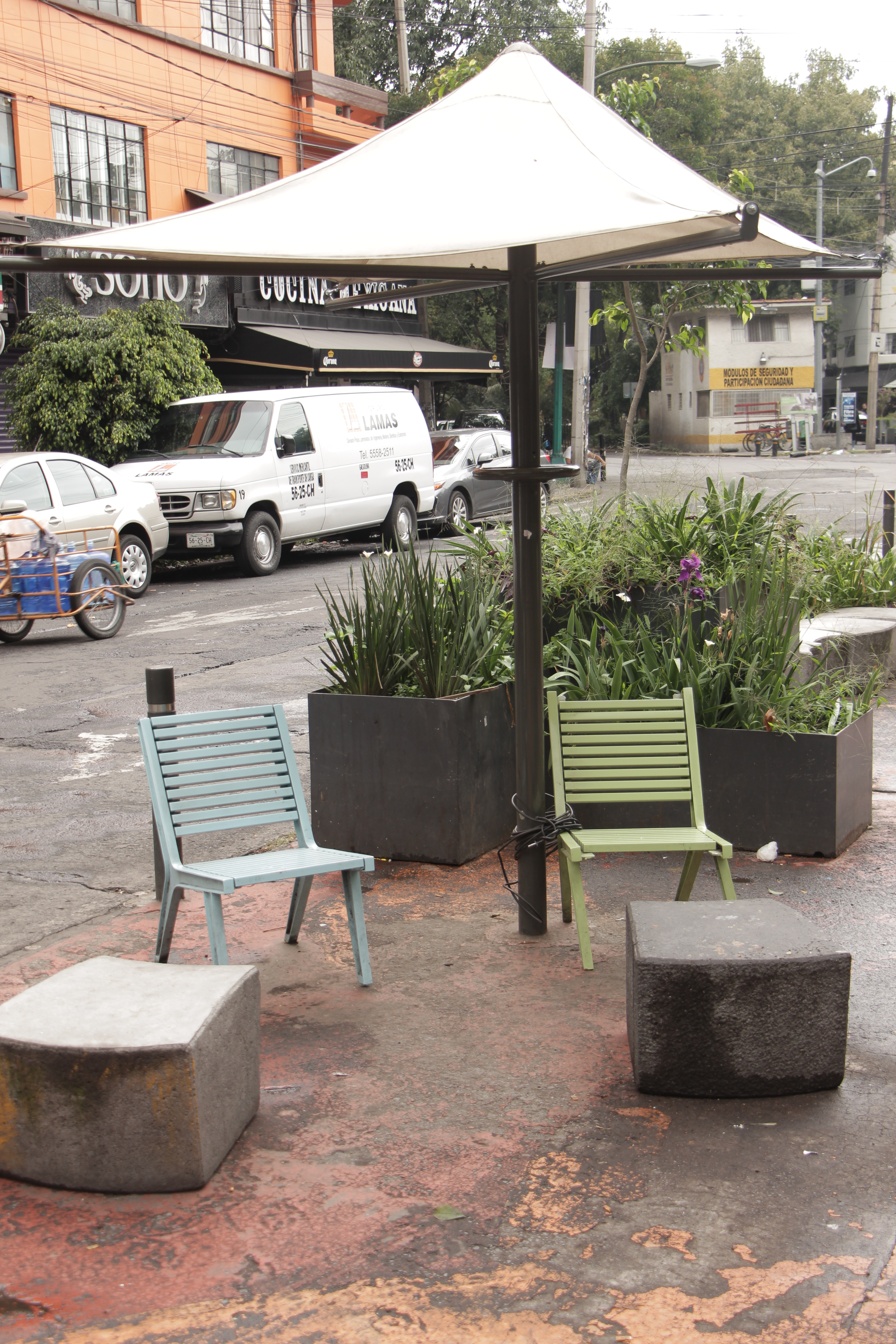 Little park outside Mercado Michoacán at Colonia Condesa in Mexico City.